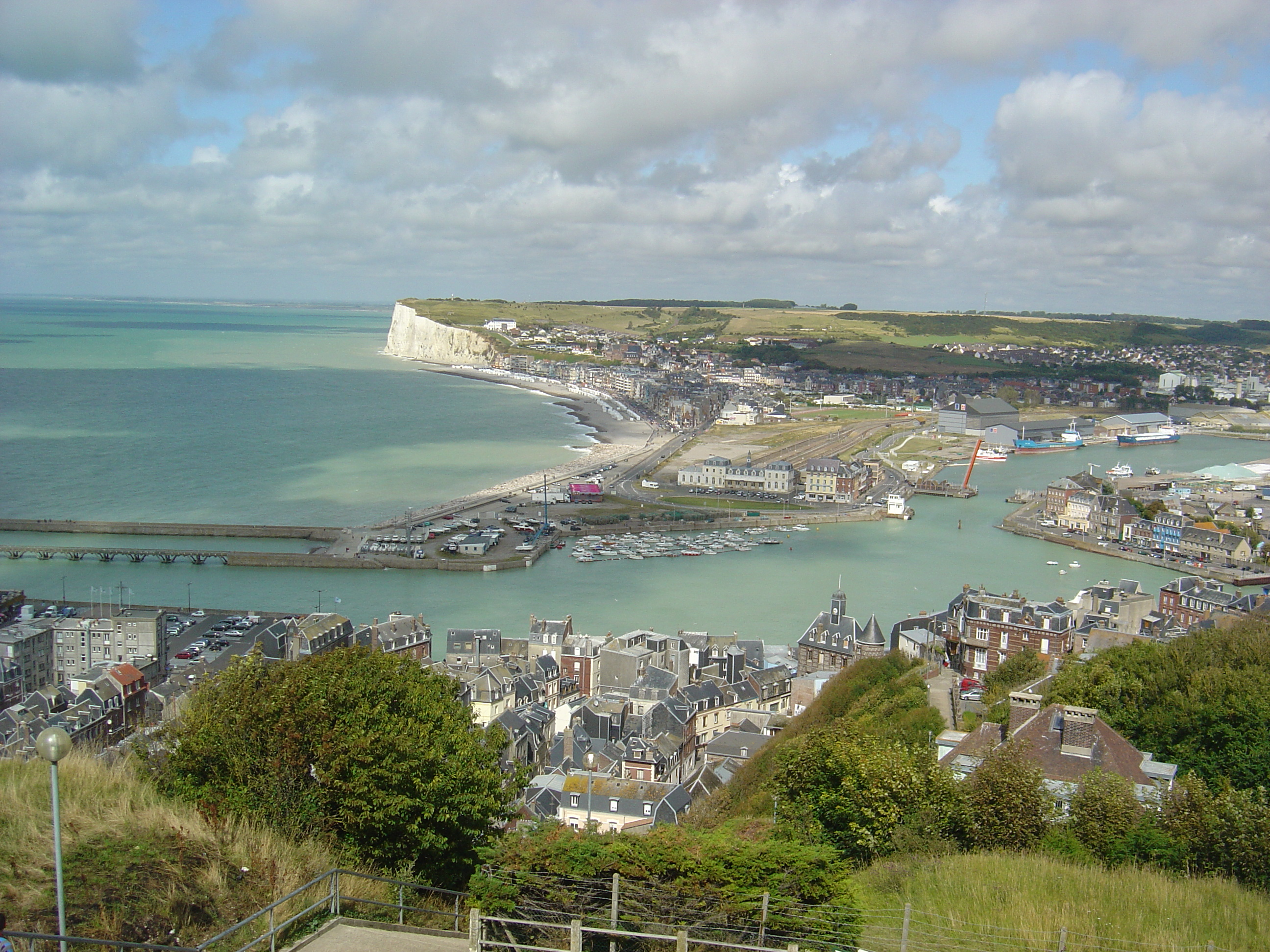 Le Treport ( Seine-Maritime - Normandy)view from Treport-Terrasse